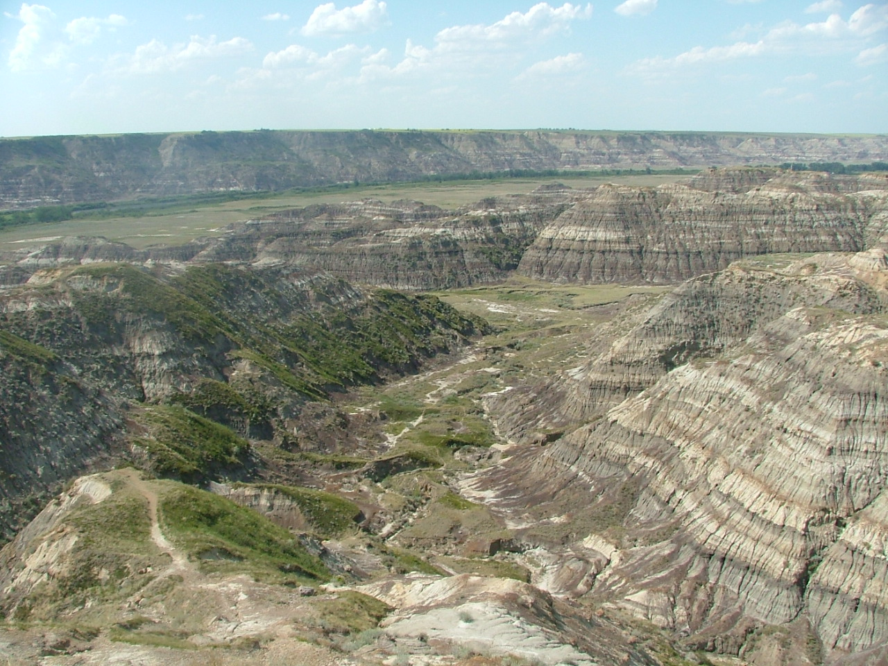 Picture of the badlands near Drumheller, Alberta, in Canada. Note: date incorrect in camera, not updated.